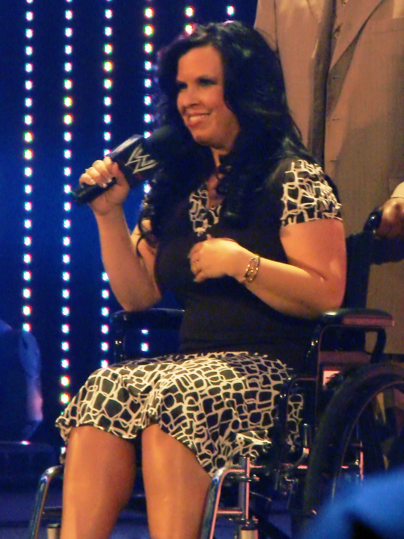 Vickie Guerrero at WWE SmackDown. Allstate Arena, Rosemont IL. Taken by me, cropped and rotated.